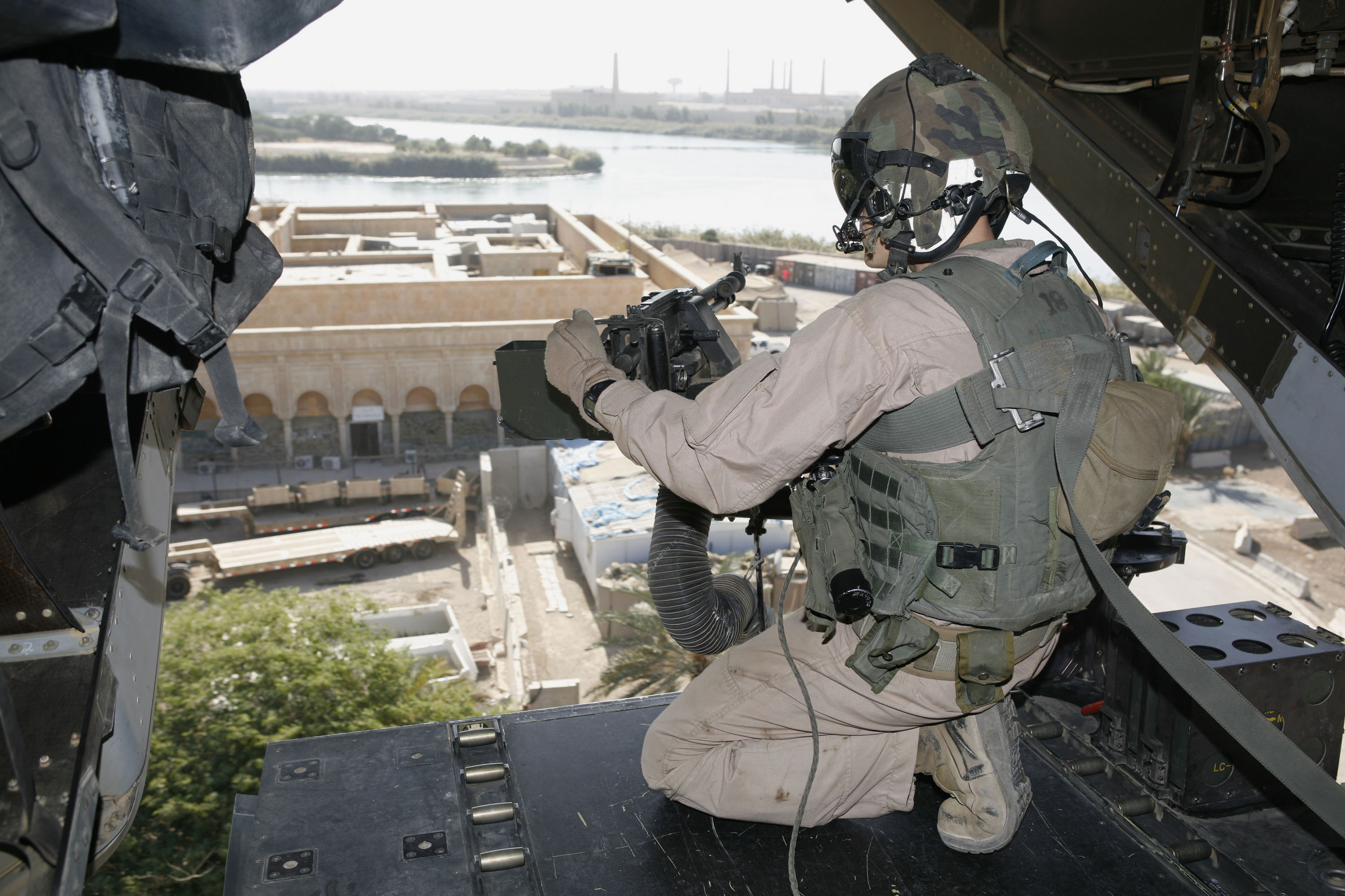 AL ASAD AIR BASE, Iraq (Nov. 10, 2007) U.S. Marine Sgt. Danny L. Herrman, a flight line crew chief with Marine Medium Tiltrotor Squadron-263, mans a 240 Gulf heavy machine gun on the back of a MV-22B Osprey while flying on a mission over the Al Anbar Province of Iraq. U.S. Marine Corps photo by Cpl. Sheila M. Brooks (RELEASED)